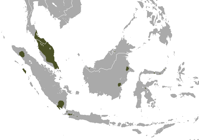 Black-capped Fruit Bat (Chironax melanocephalus) range